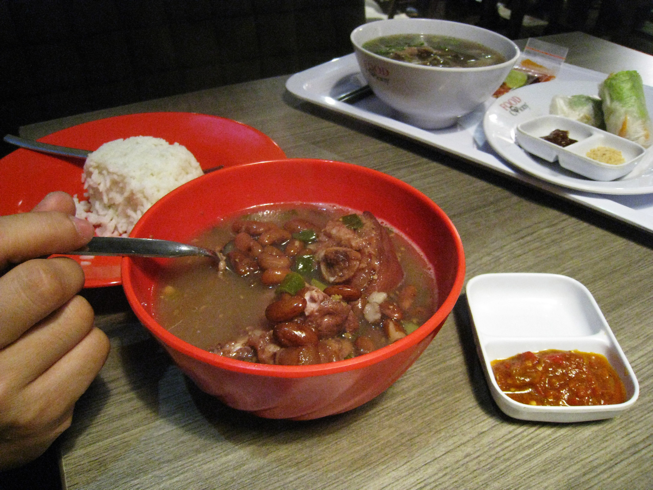 Brenebon, red kidney bean soup with pork trotters. A Minahasa (Manado) cuisine specialty, Indonesia.